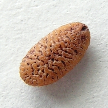 The seed of Sambucus nigra. The length of the seed is appr. 3 mm.